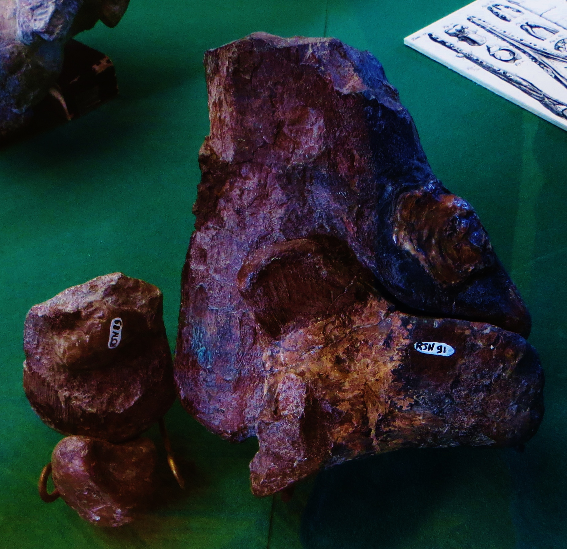 Fossil of Streptospondylus, a dinosaur from the Middle Jurassic period of France. Took the photo at the Gallery of Paleontology and Comparative Anatomy in the French National Museum of Natural History, Paris.